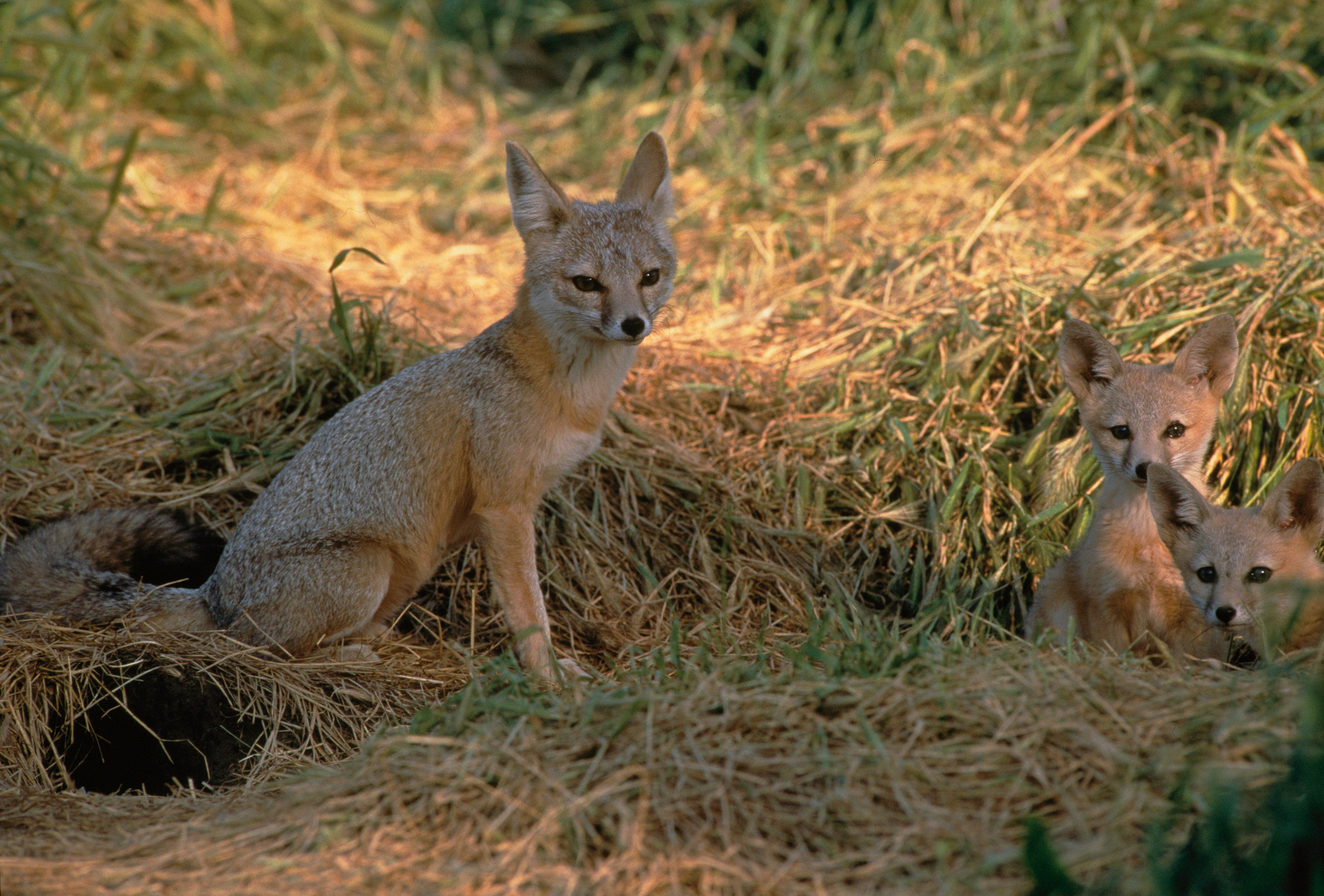 San Joaquin kit fox family sit among grasses